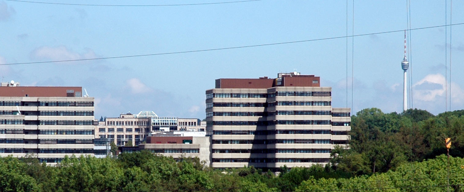 Press building of Stuttgarter Nachrichten and Stuttgarter Zeitung (newspapers), position: Stuttgart-Fasanenhof industrial park. TV tower Stuttgart on the right, middle to left parts of former DaimlerChrysler headquarters.